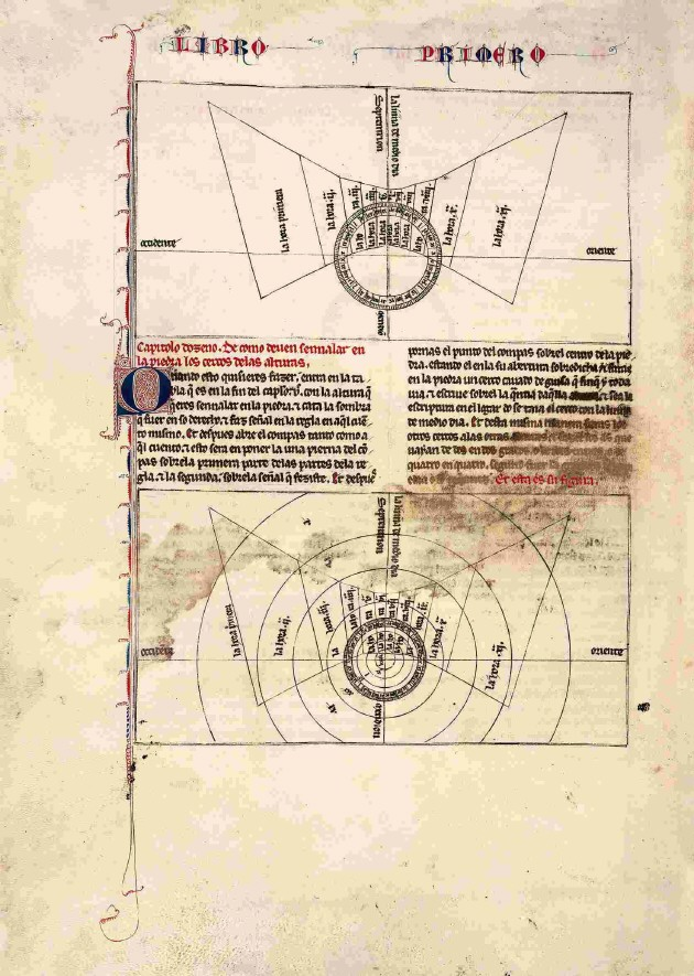 Folio del Libro del saber de astrología